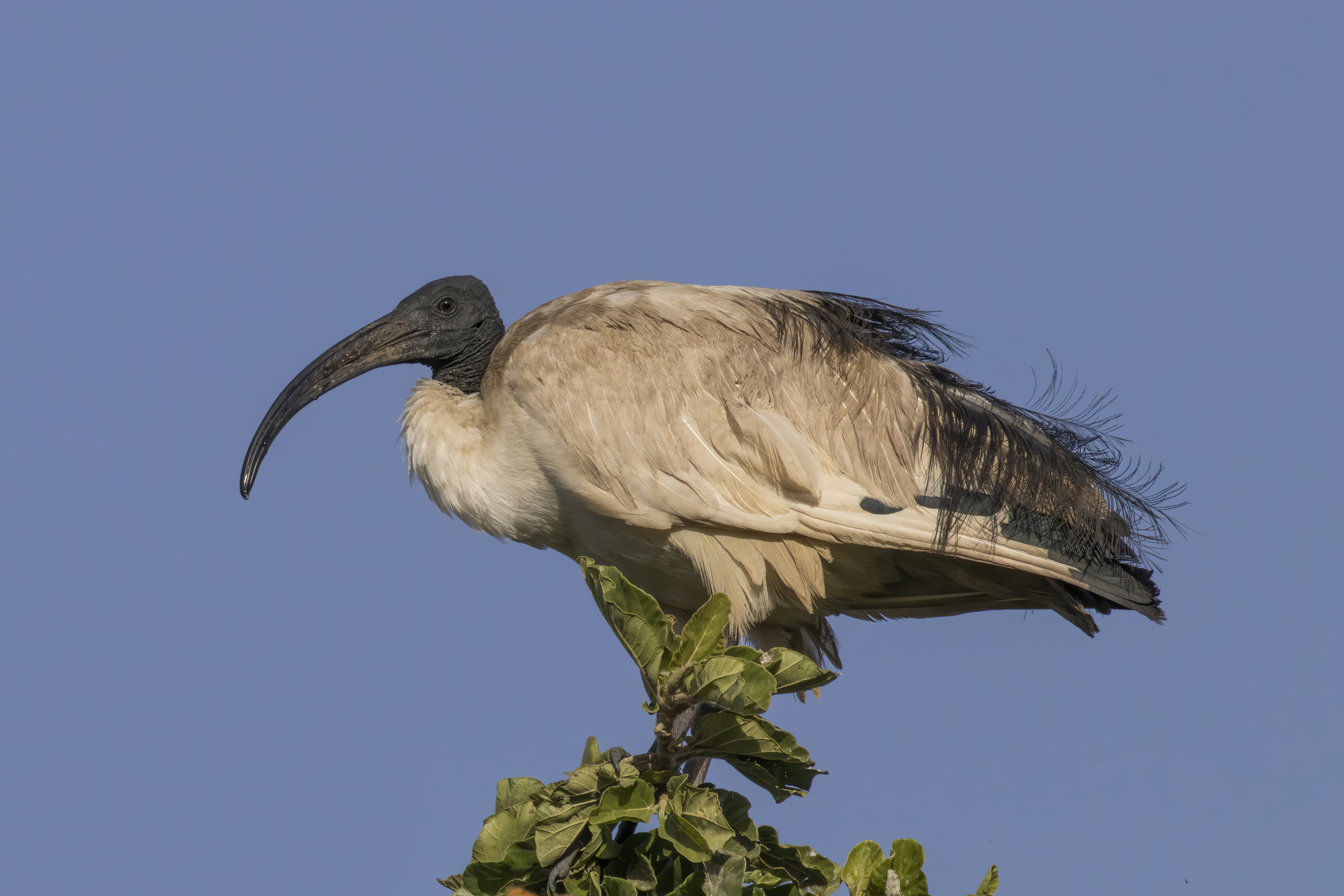 Sacred ibis (Threskiornis aethiopicus), Lake Ziway, Ethiopia